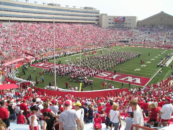 Taken by me during a game